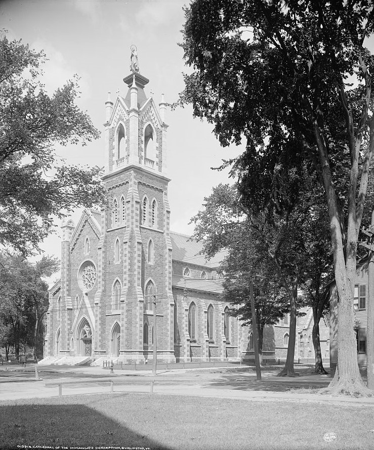 Cathedral of the Immaculate Conception, Burlington, Vt. Completed in 1867, it was destroyed in a fire in 1972.